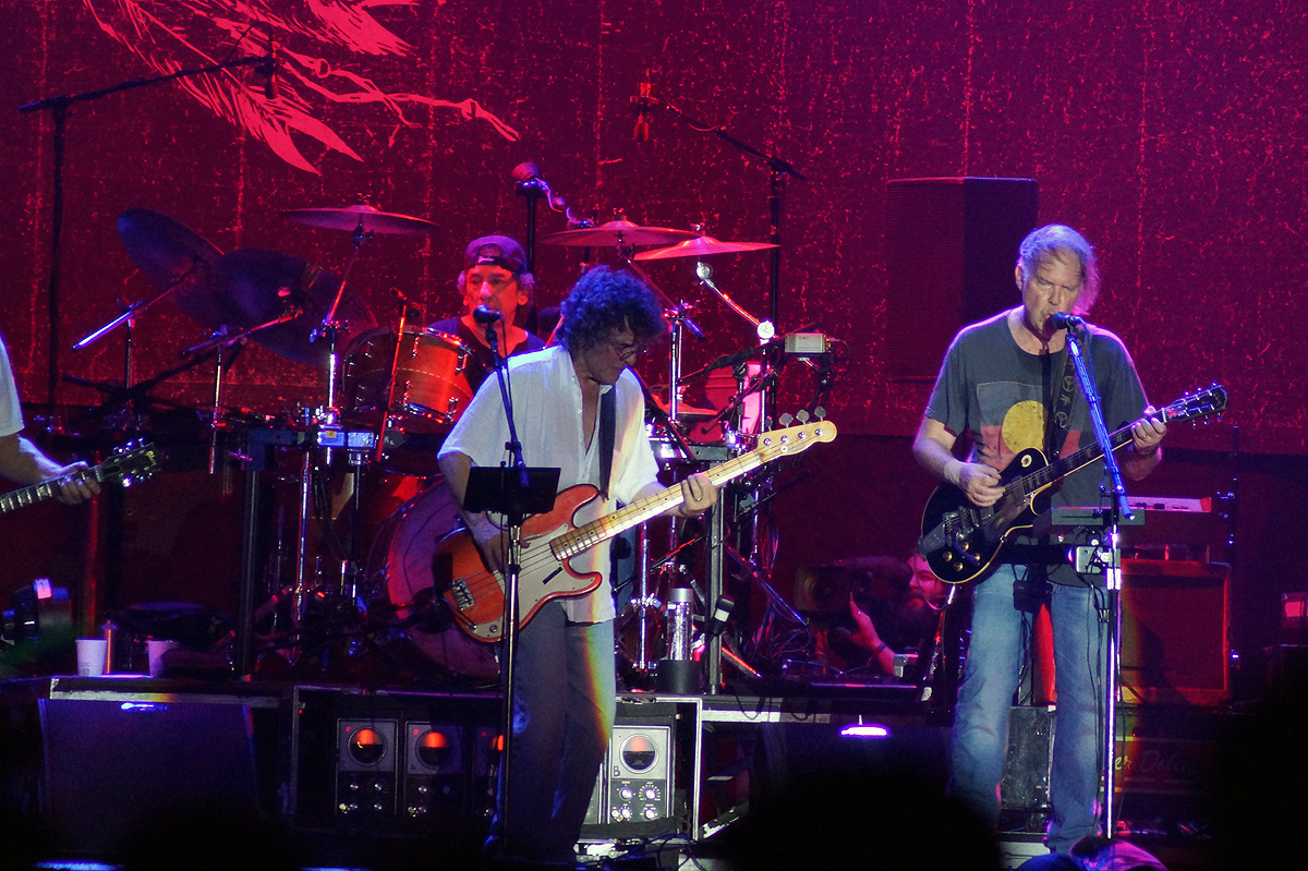 Ralph Molina (drums), Billy Talbot (bass), Neil Young (guitar) in 2012 (Frank "Poncho" Sampedro is seen only partially)